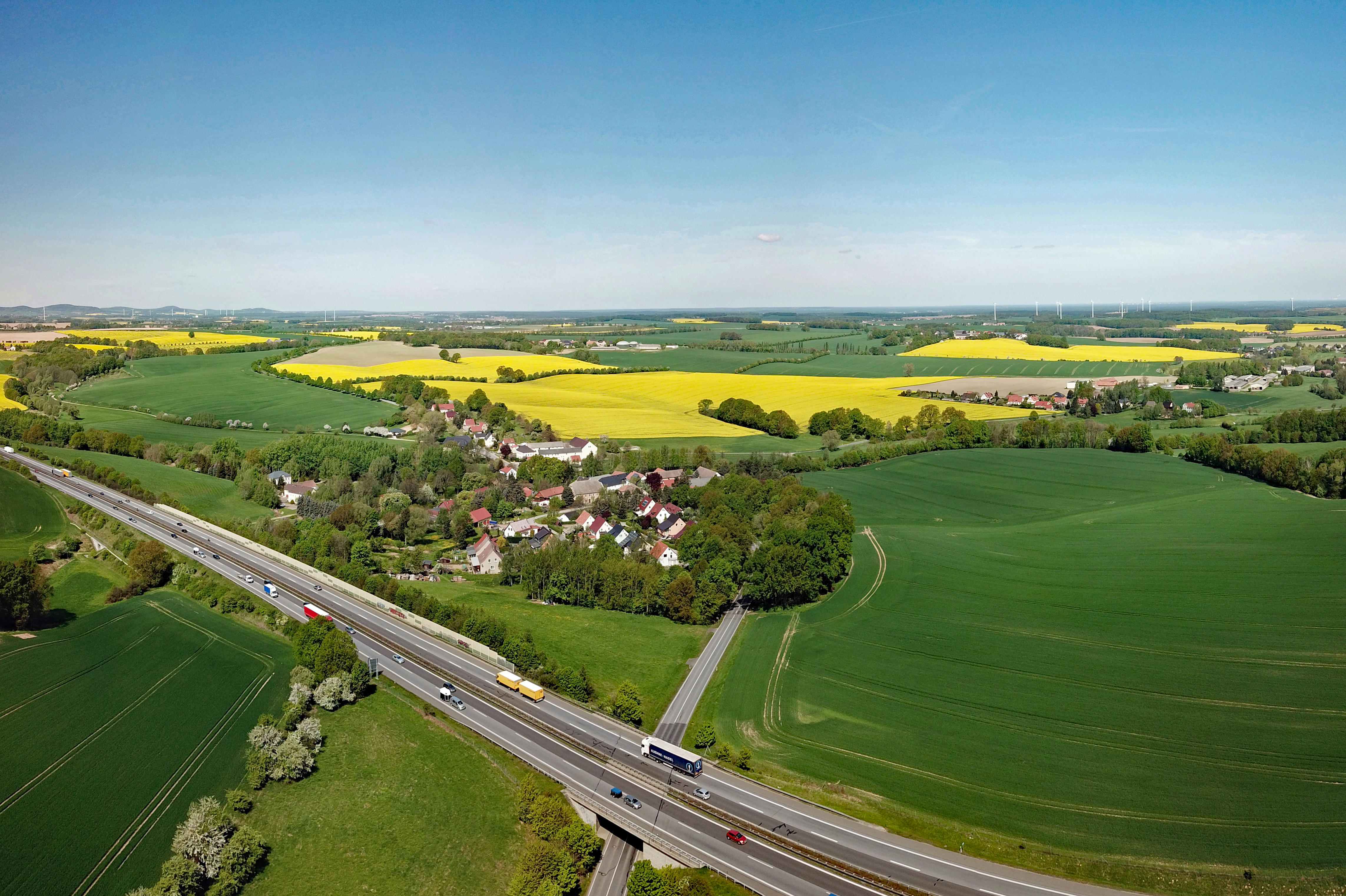 Prischwitz (Göda, Saxony, Germany) Hornjoserbsce: Powětrowy wobraz Prěčec z awtodróhu A 4